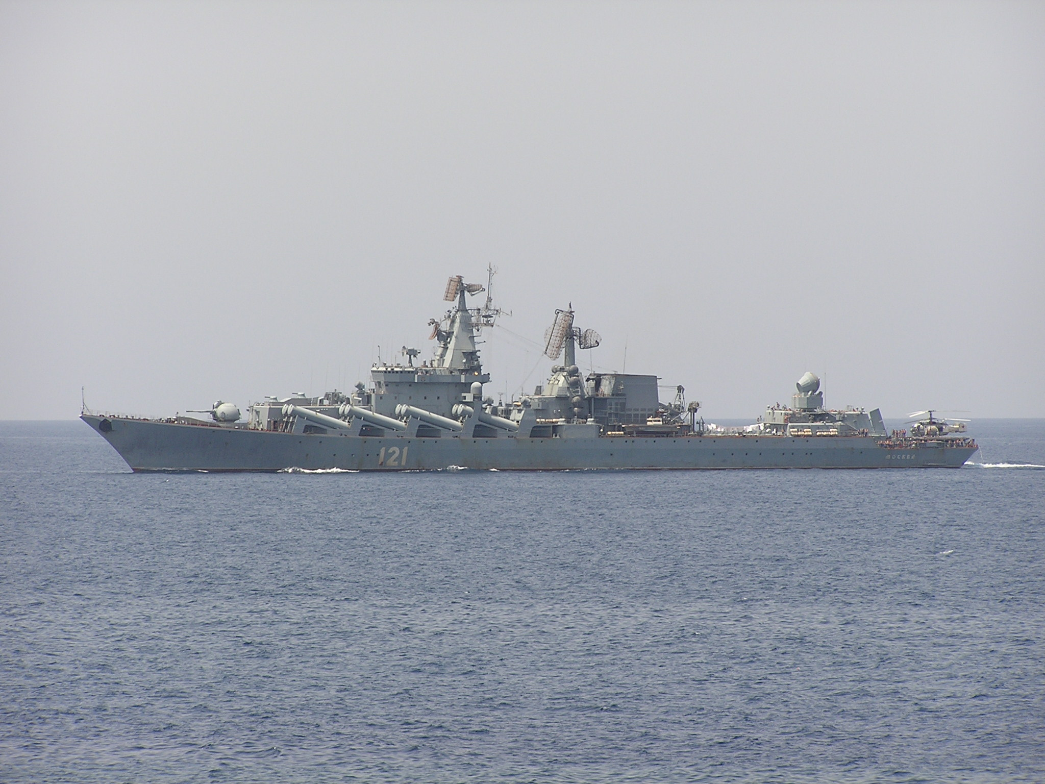 Russian guided missile cruiser Moskva in Red Sea, June 2003.